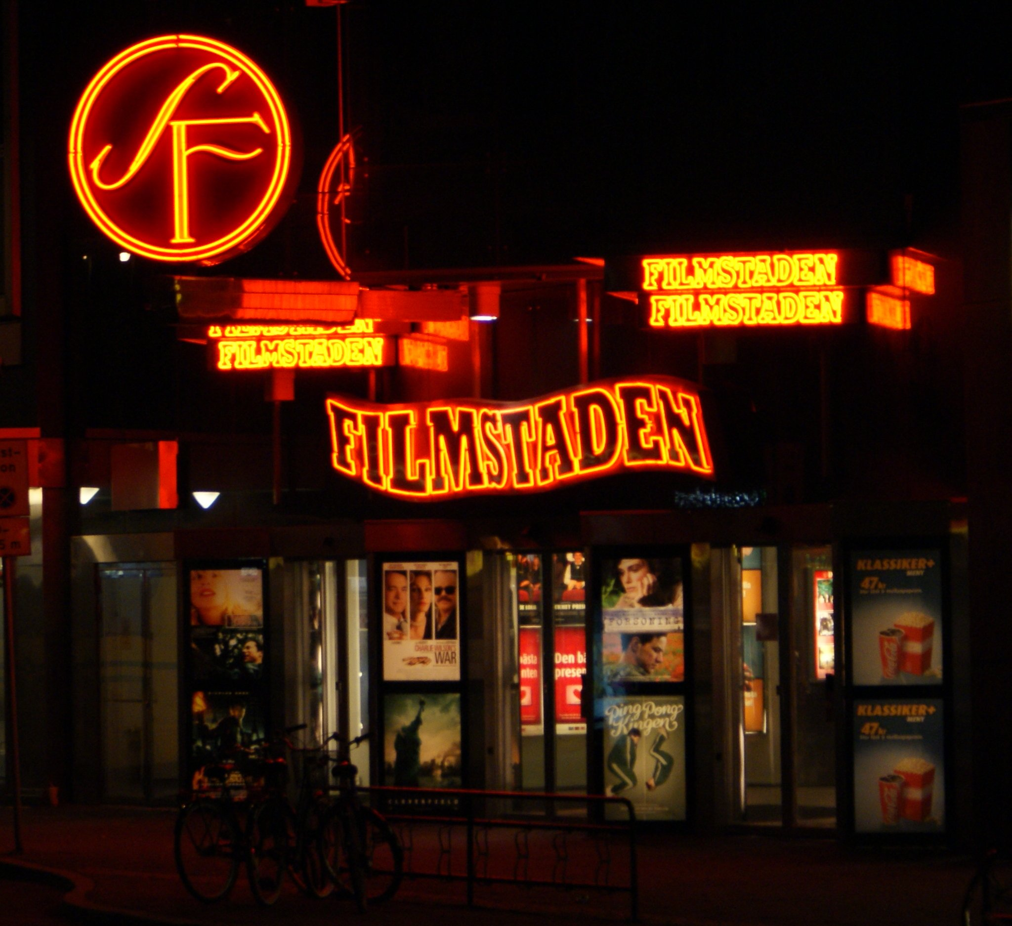 The cinema Filmstaden in Karlstad, Sweden.